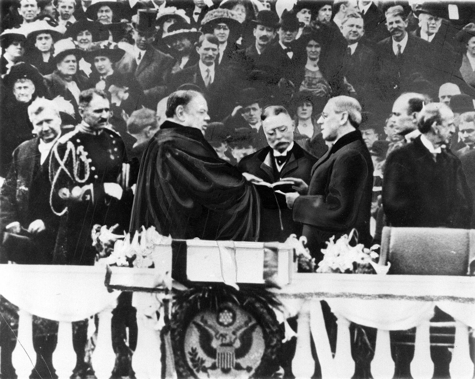 Woodrow Wilson takes the oath of office for his first term of the Presidency in Washington, DC.